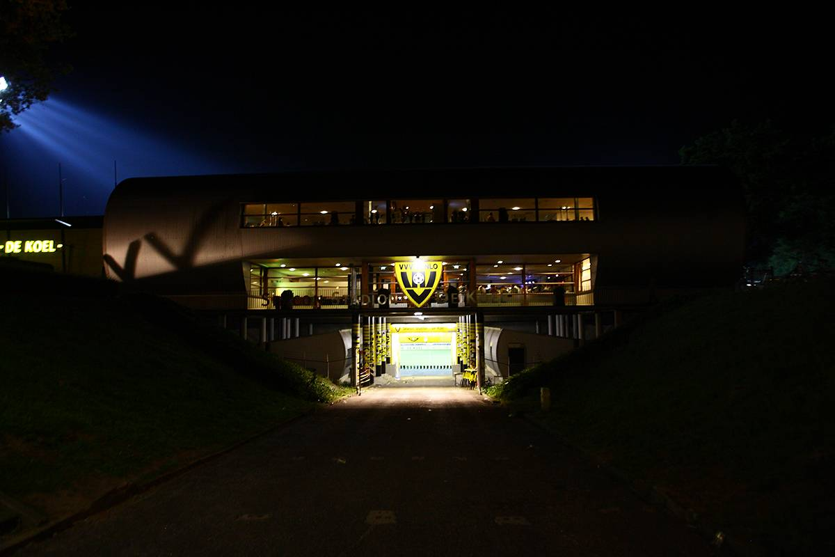 AUGUST 22, 2009 - Football : General view of De Koel after the Eredivisie match between VVV Venlo and FC Groningen at the De Koel stadium on August 22, 2009 in Venlo, Netherlands. (Photo by Tsutomu Takasu)